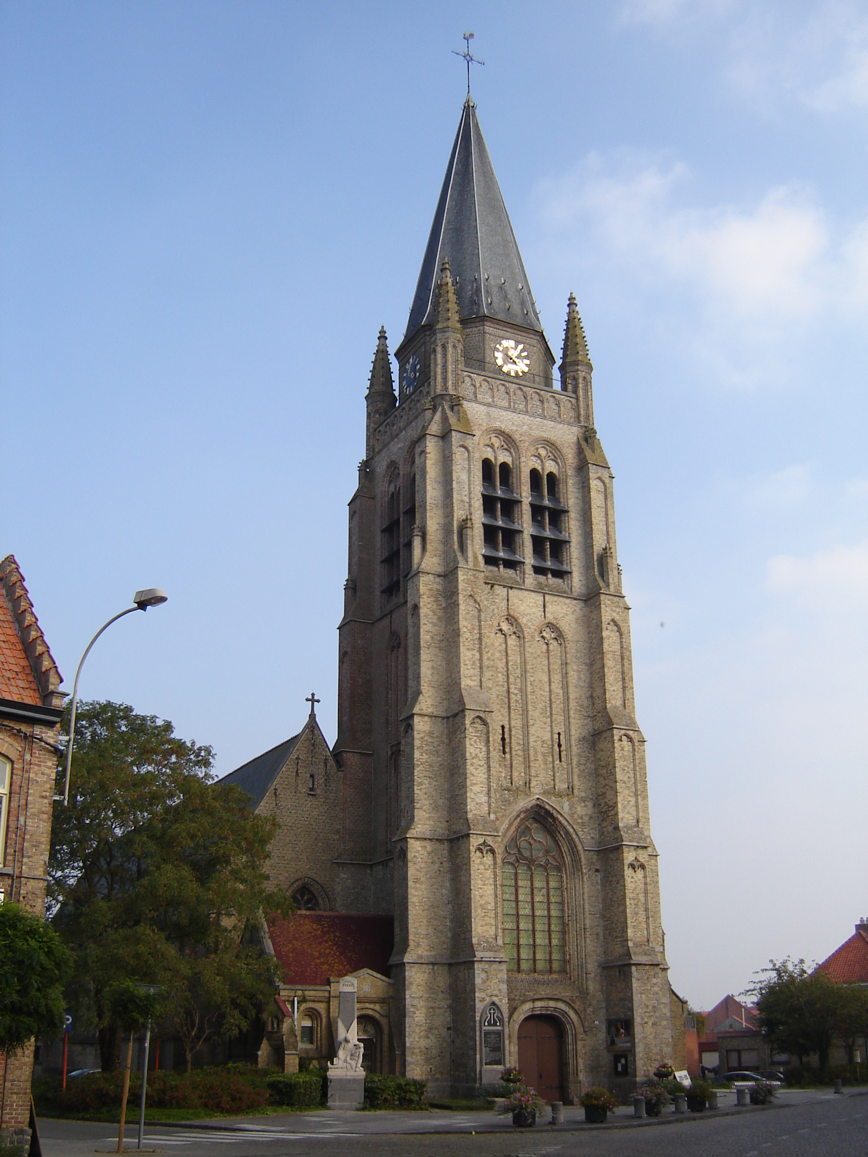 Church of Saint Vedast in Vlamertinge. Vlamertinge, Ieper, West Flanders, Belgium